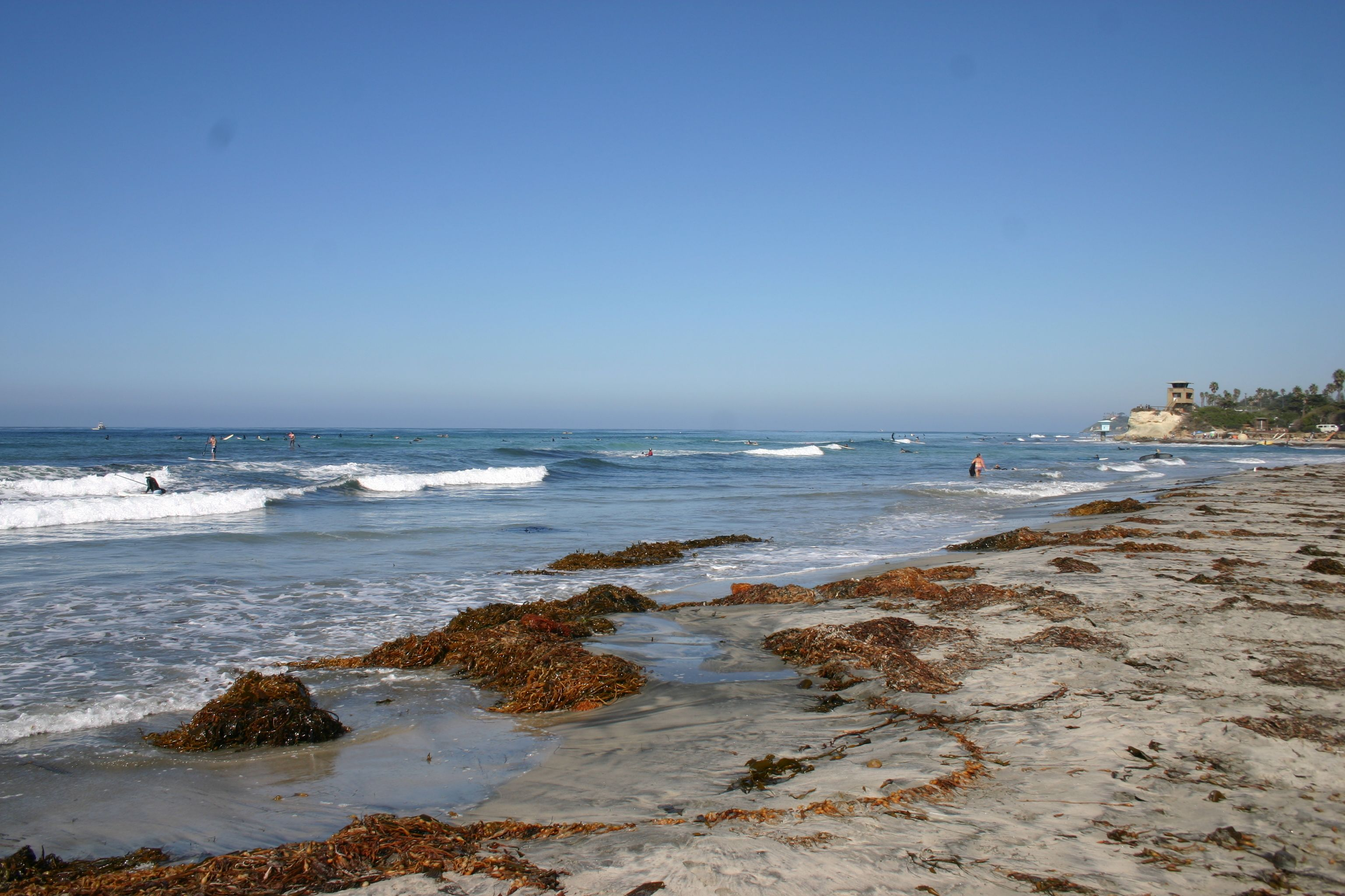 View along Cardiff State Beach, Encinitas, California, looking north